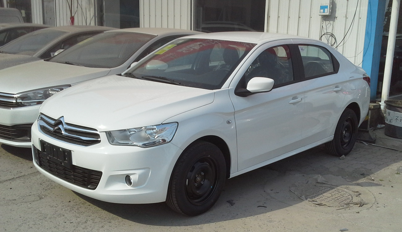 Citroën C-Elysée II photographed in Tianjin, China.